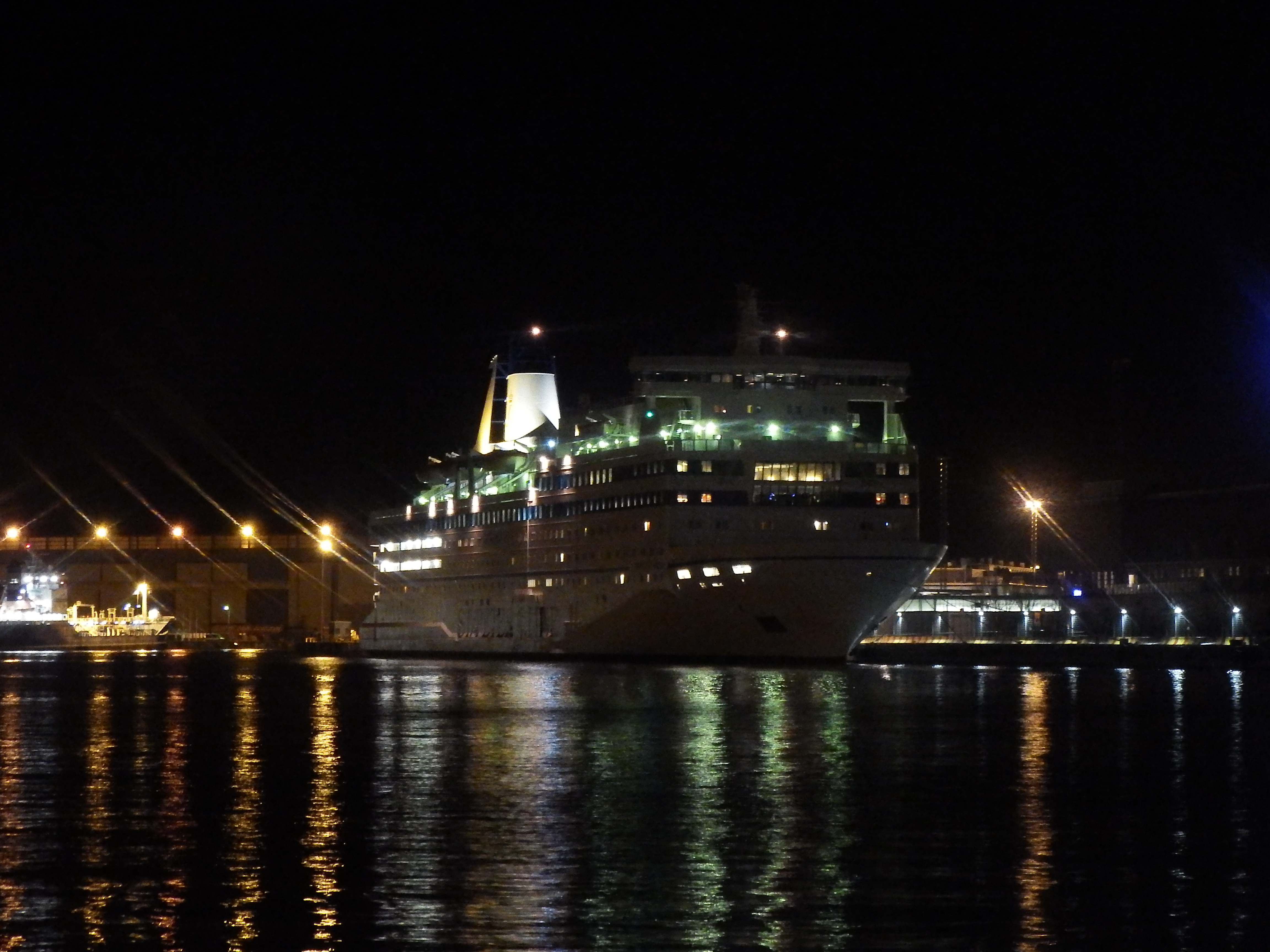 MS "Princess Maria", West Harbour, Helsinki